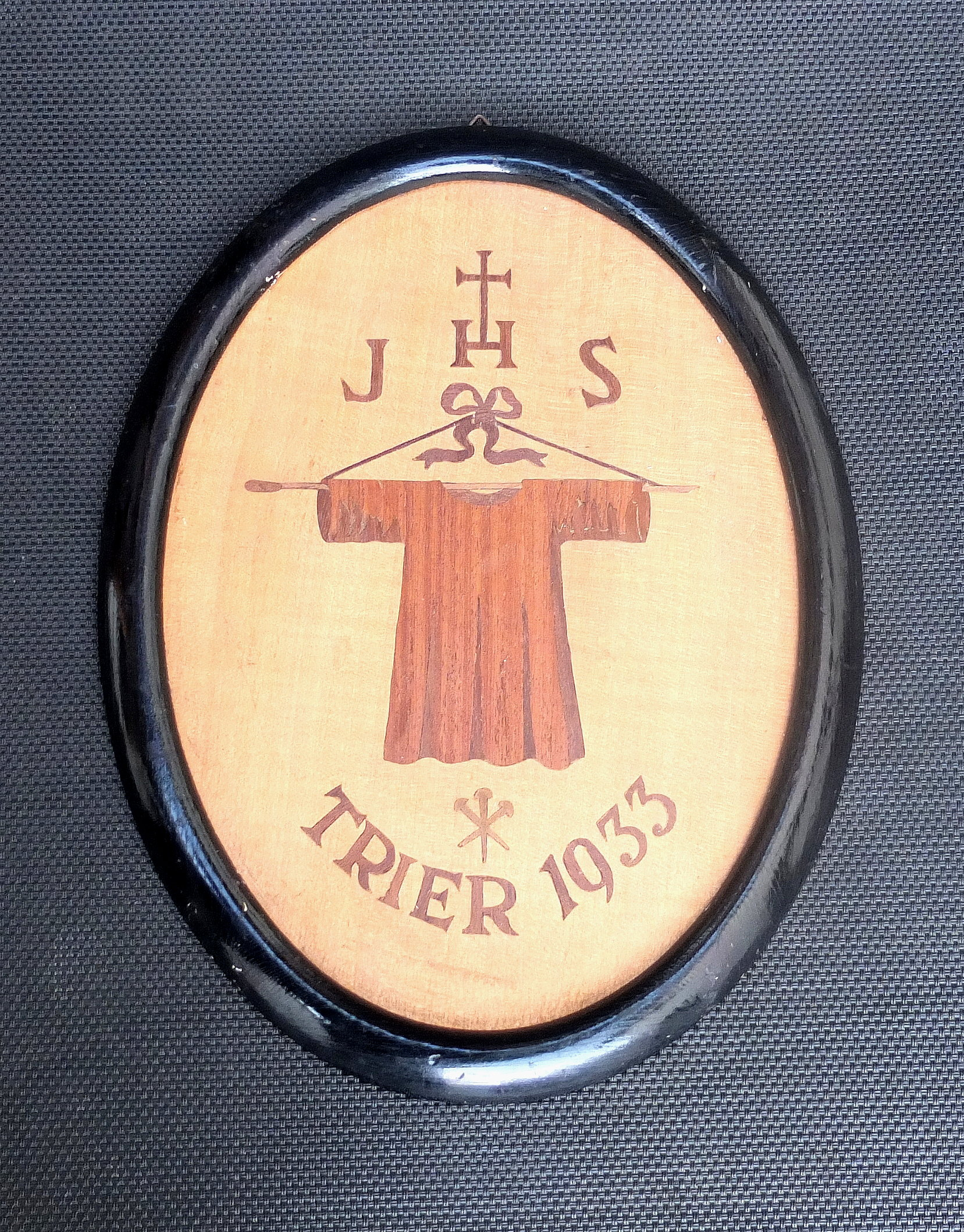 Wooden intarsia souvenir image of the 1933 pilgimage to the Holy Robe in the Cathedral of Trier, size: 265 mm x 207 mm